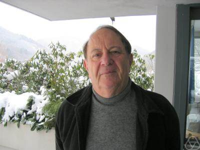 Roland Glowinski, French-American mathematician, at the Oberwolfach Workshop: Numerical Techniques for Optimization Problems with PDE Constraints, in spring 2006.